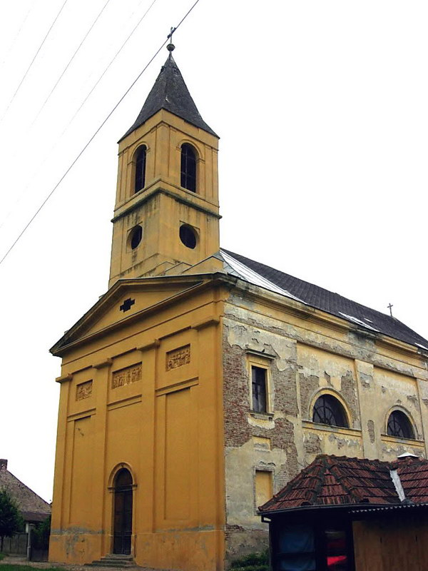 The Assumption of Blessed Virgin Mary Catholic Church in Čelarevo.